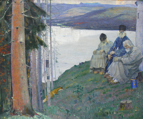 Three old men